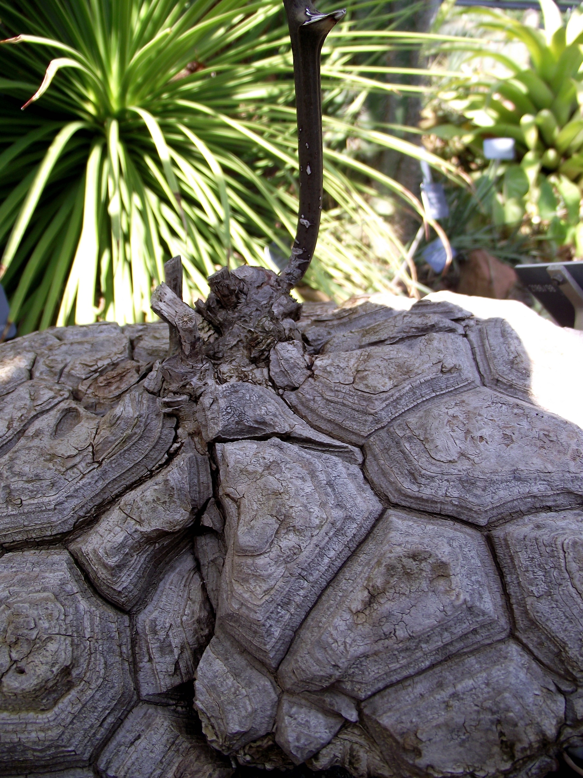 Mexican yam or barbasco de placaLatina: Dioscorea mexicana